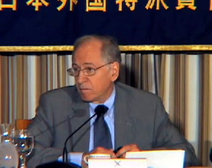 Gerald Curtis, Burgess Professor of Political Science, Columbia University, talked about "General Election Analysis & Japan's Political Future" at the Foreign Correspondents' Club of Japan in Chiyoda Ward, Tōkyō Metropolis on August 31, 2009.